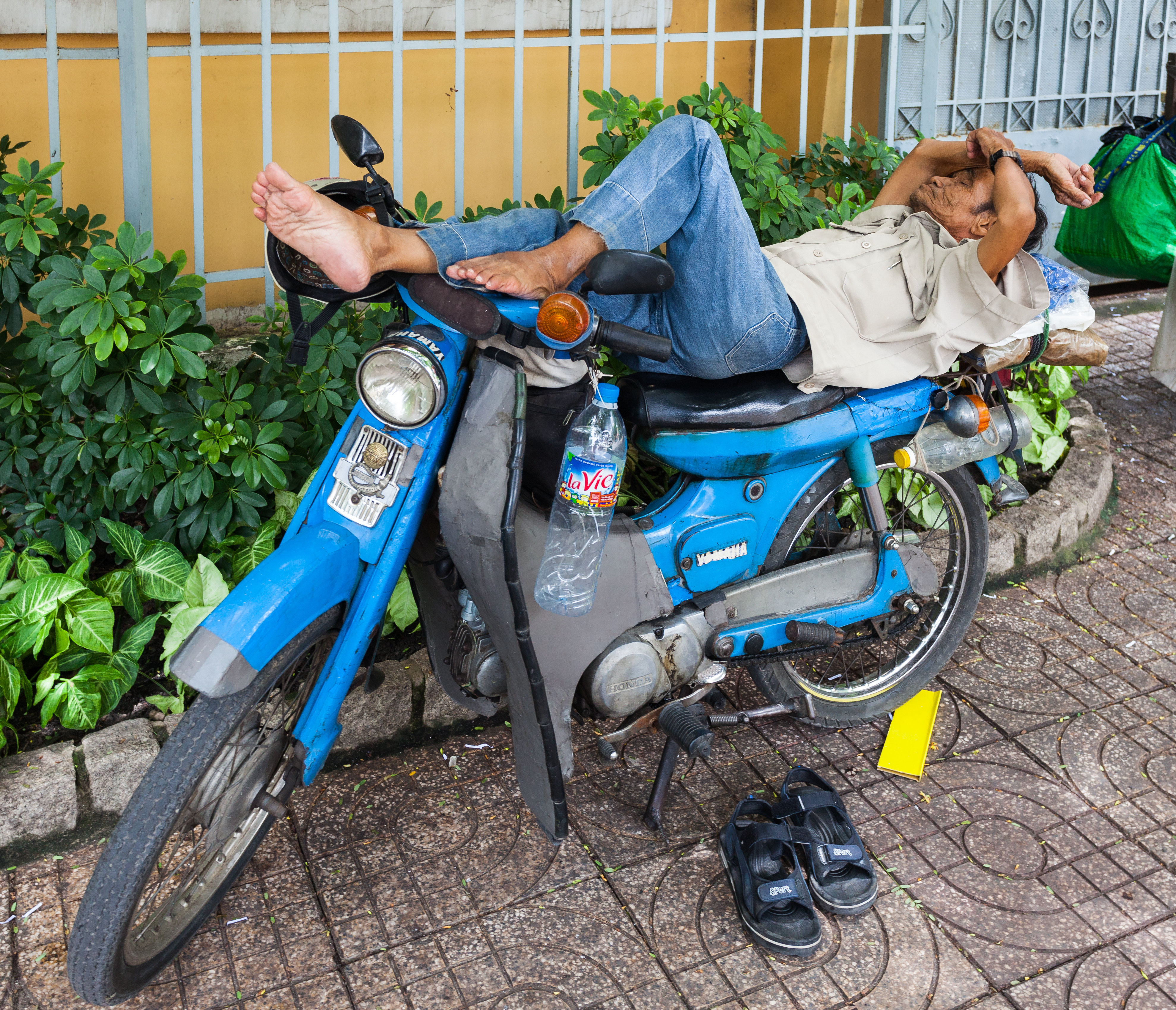 Having a nap in Ho Chi Minh City, Vietnam